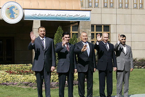 TEHRAN. Participants of the second Caspian Summit. From left to right: President of Azerbaijan Ilham Aliev, President of Turkmenistan Gurbanguly Berdymukhammedov, President of Kazakhstan Nursultan Nazarbaev, President of Russia Vladimir Putin and President of Iran Mahmoud Ahmadinejad.